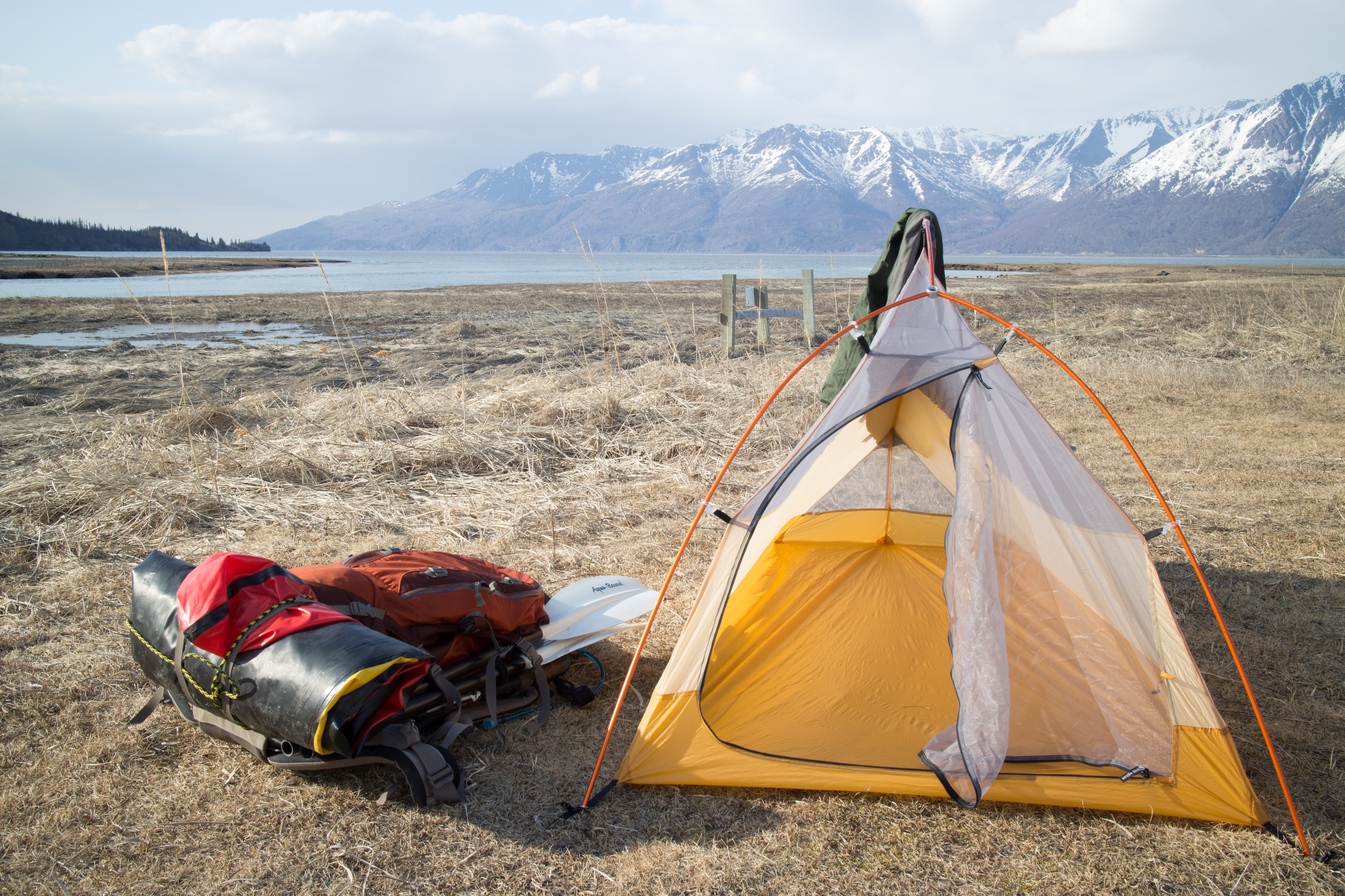 Camping on a trip along the south side of Turnagain Arm, mouth of Resurrection Creek, Alaska.